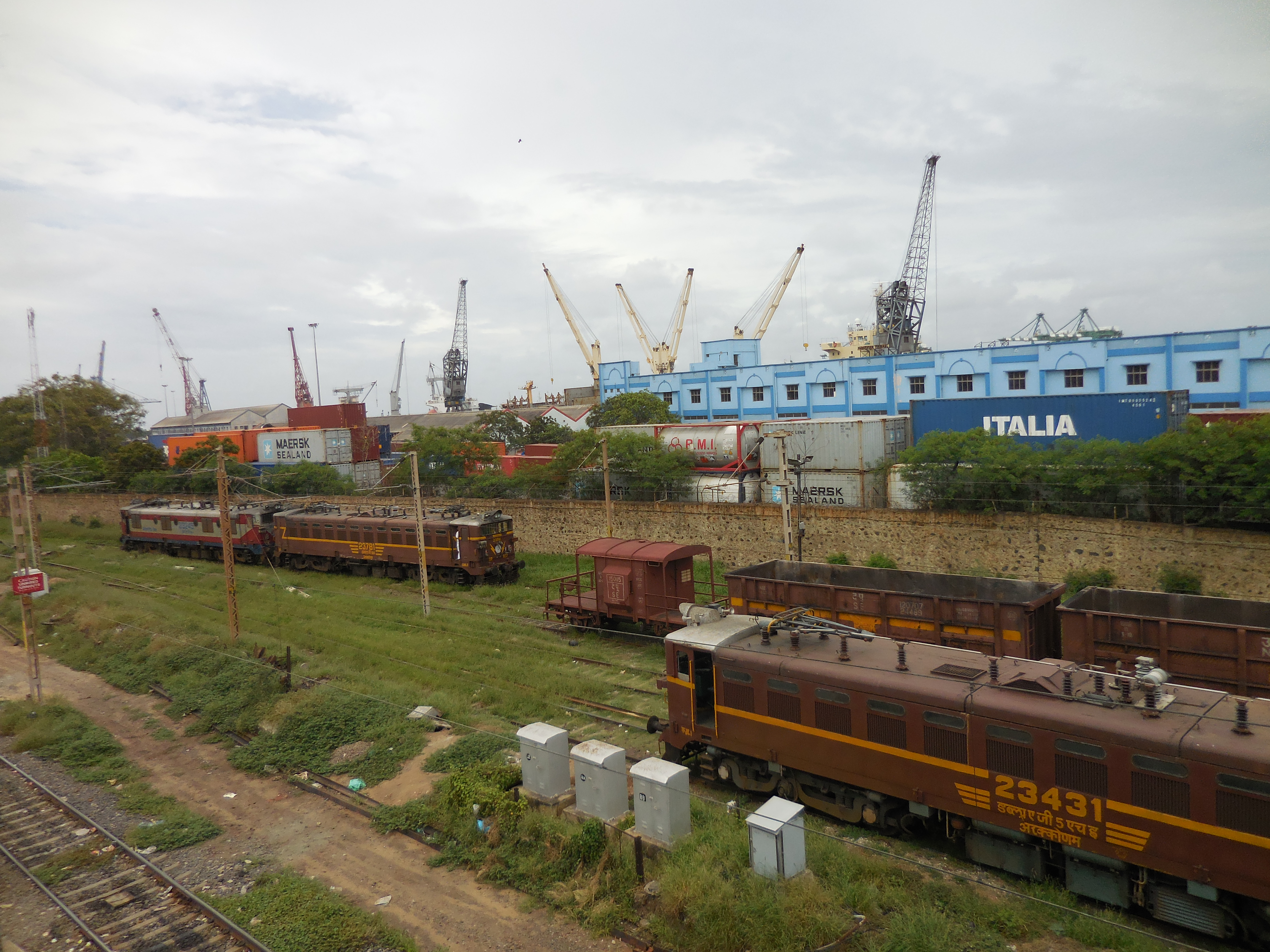 Chennai Beach station serving the Chennai Port, taken on 23-Aug-2014 at 2:15 pm